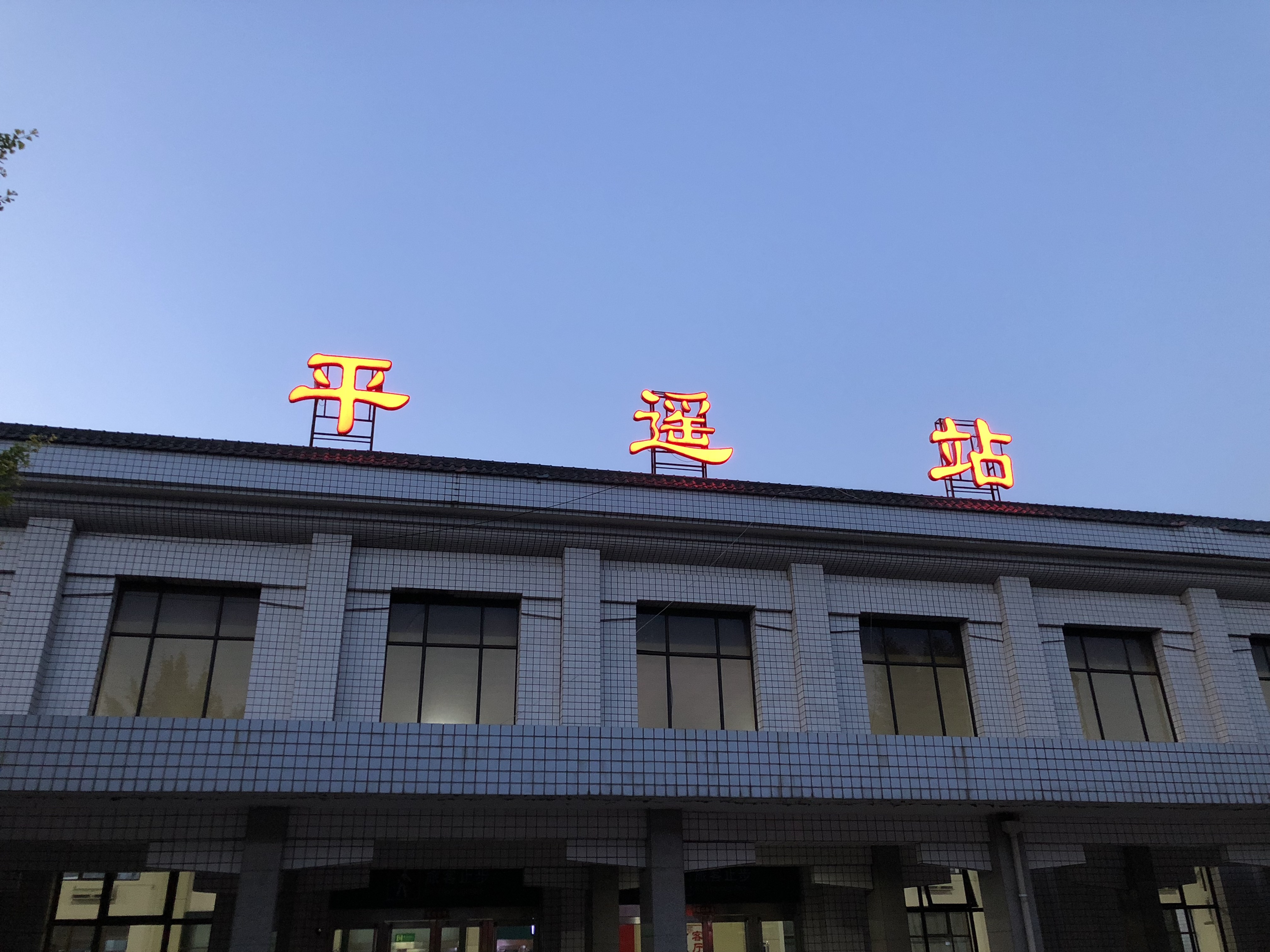 Pingyao Railway Station